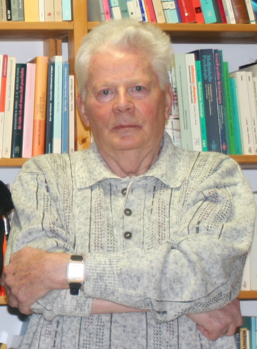 Prof. Dr. Peter Förster, born 1932, German educational and social scientist